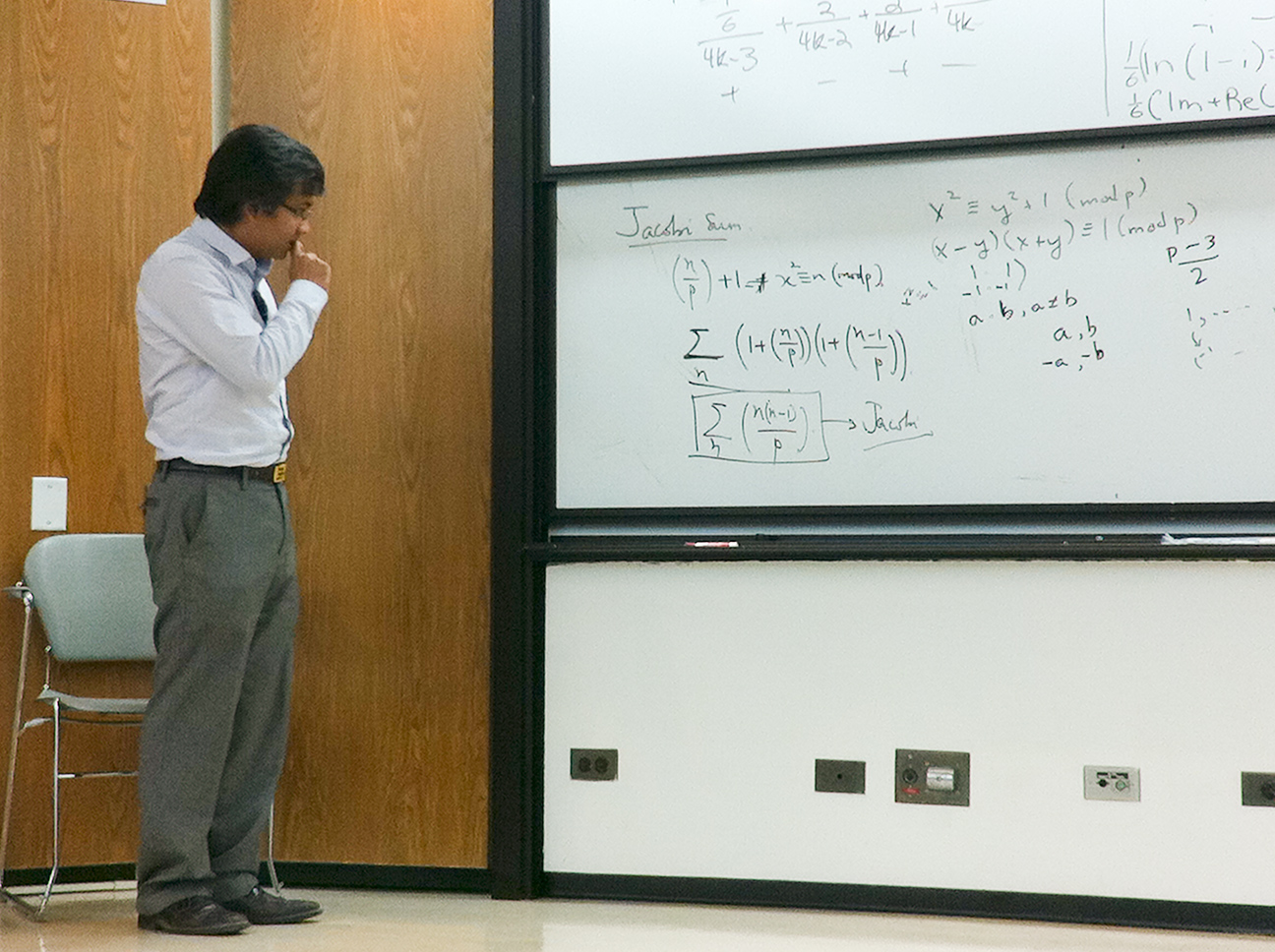 Kannan Soundararajan teaching MATH 193 (Polya Putnam Seminar) at Stanford University.